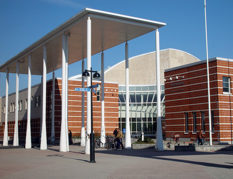 Malmitalo (Malmi Building) in Malmi, Helsinki, Finland